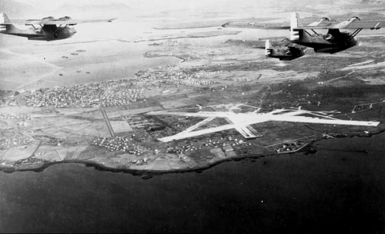 A U.S. Navy Consolidated PBY-5A Catalina aircraft from Patrol Squadron VP-73 returning to Reykjavik Airport (BIRK), Iceland, in early 1942.